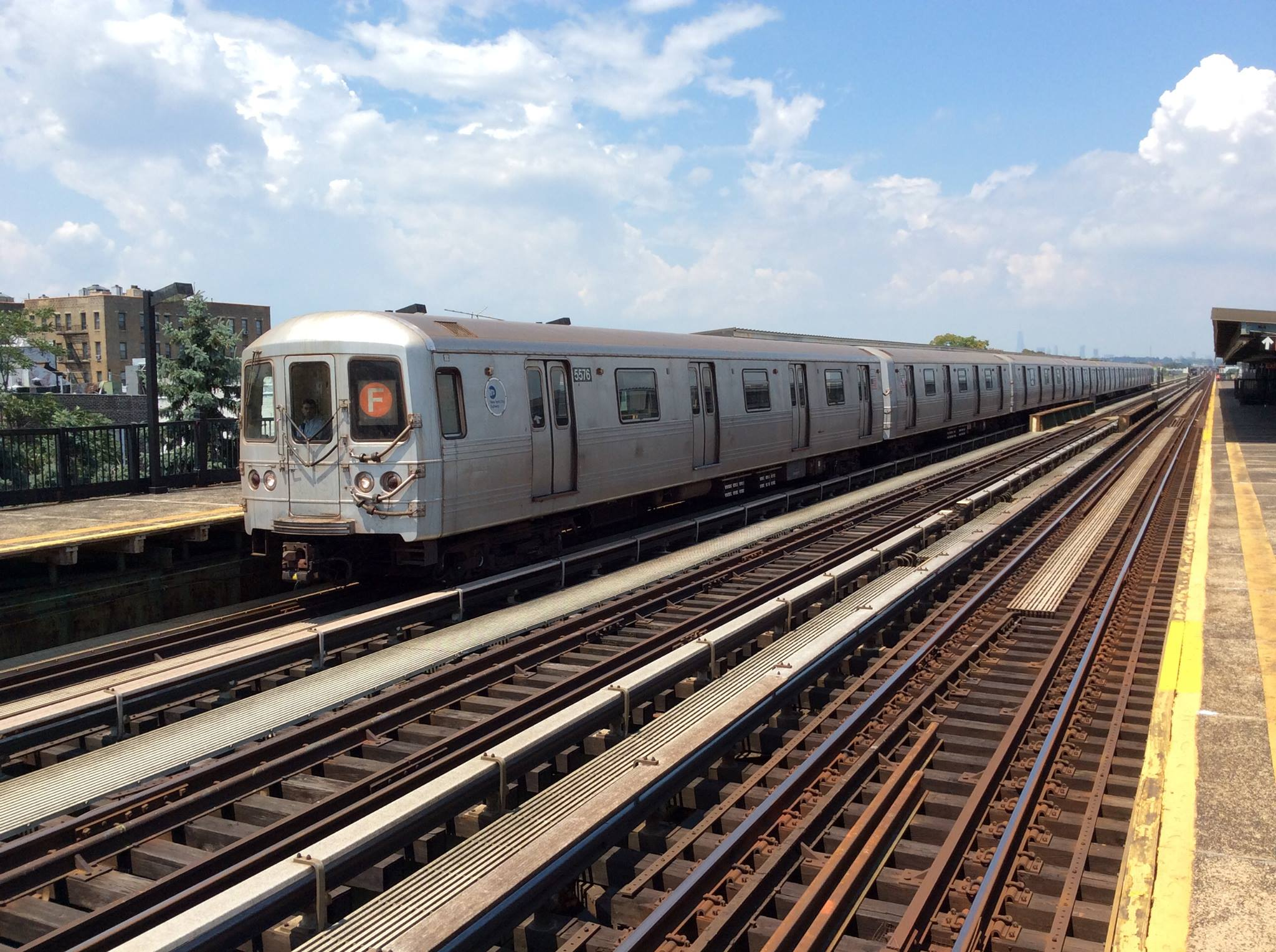 Southbound R46 F train at Avenue P